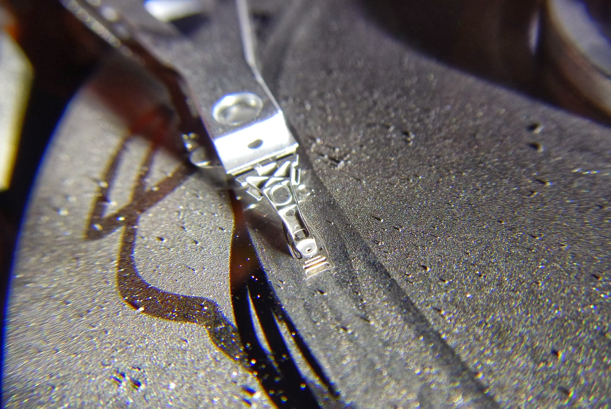 Samsung Harddrive headcrash